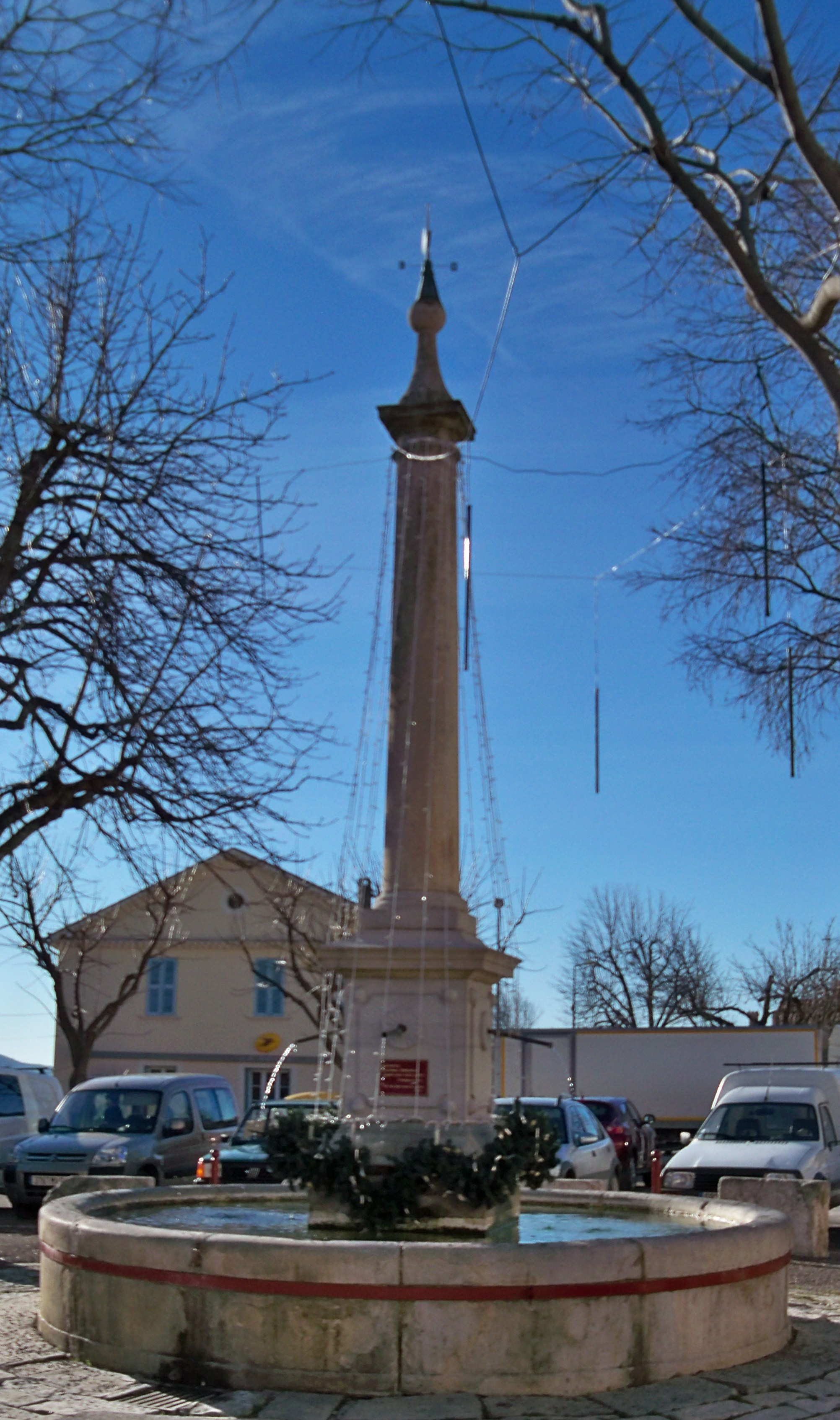 fountain in Banon (Alpes deHaute Provence, France)